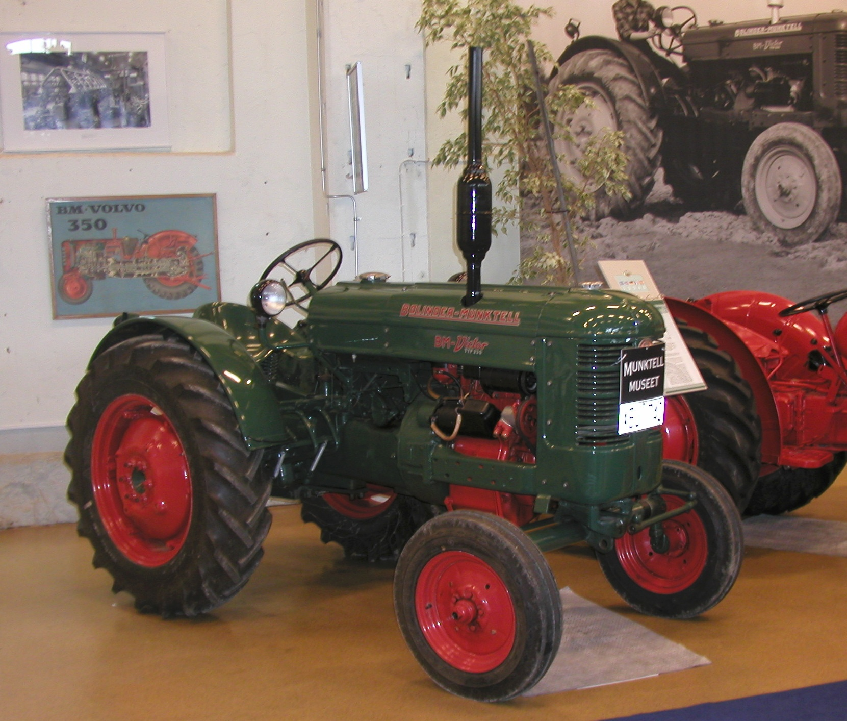 Bolinder Munktell 230 Victor, manufactured By Bolinder-Munktel starting from 1955. Photo take at the Munktell museum in Eskilstuna, Sweden 0ctober 2009.